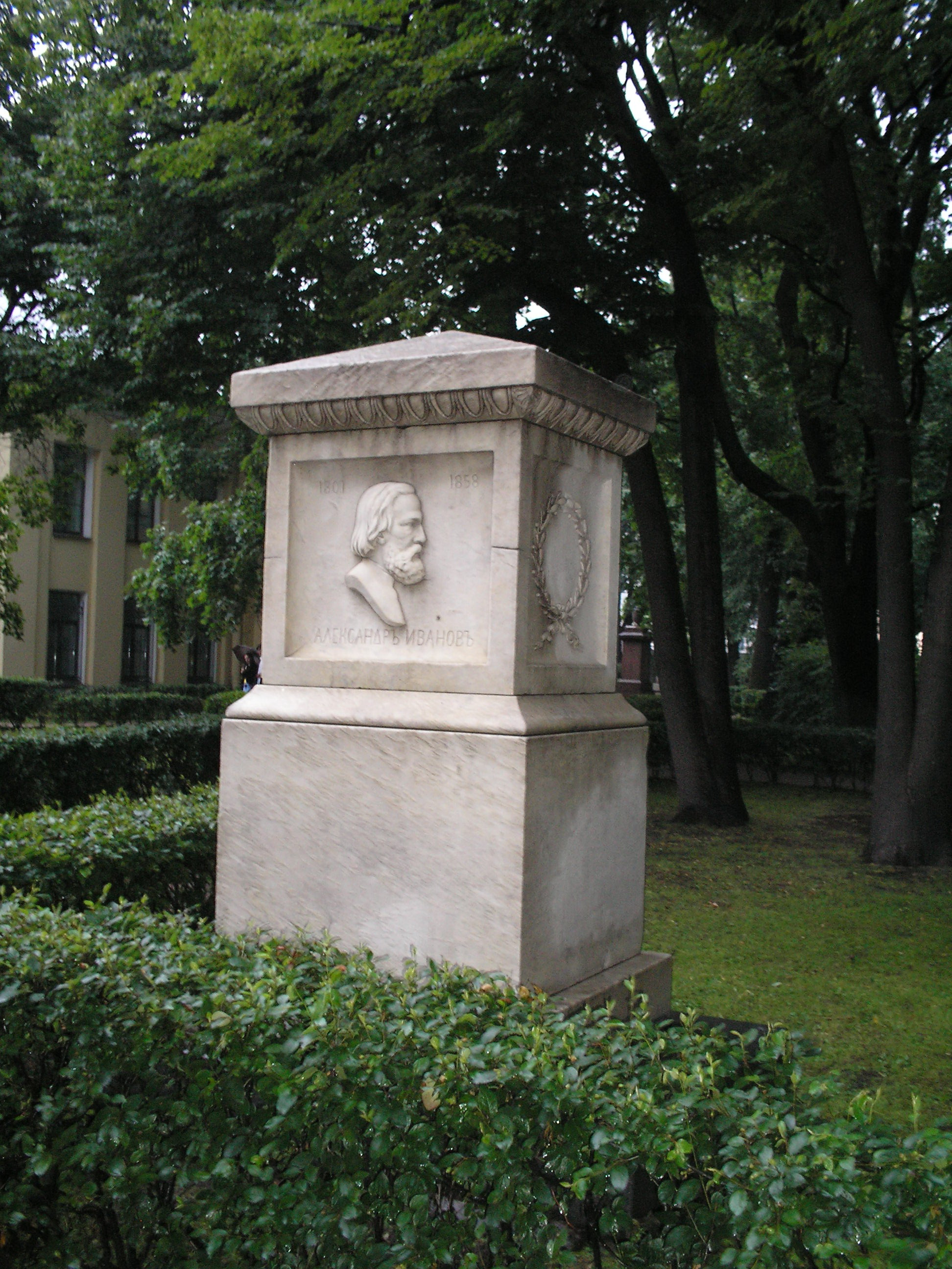 Tomb of Alexandr Andreevich Ivanov